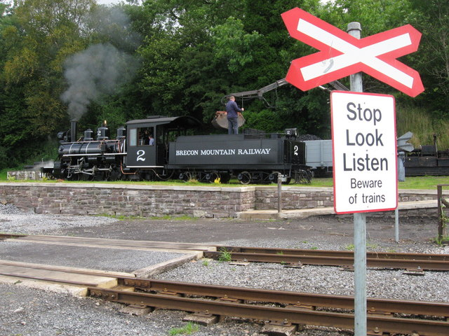 Level crossing at Pontsticill station, Brecon Mountain Railway Note locomotive Number 2, a 1930-built Baldwin 4-6-2 being coaled.